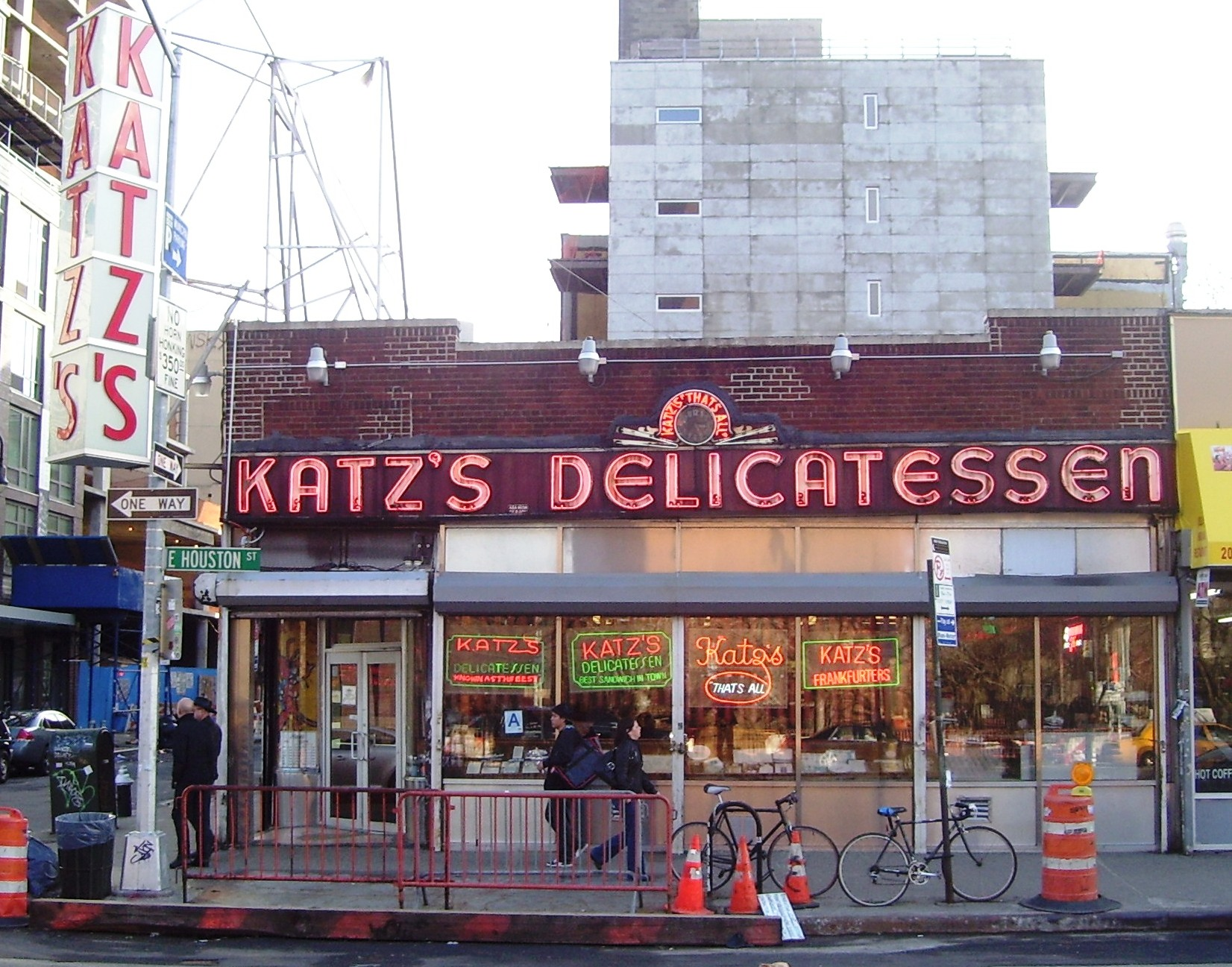 Katz's Delicatessen at 250 East Houston Street on the corner of Ludlow Street in the Lower East Side neighborhood of Manhattan, New York City, has been in business since 1888.